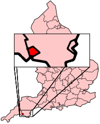 Plymouth in England